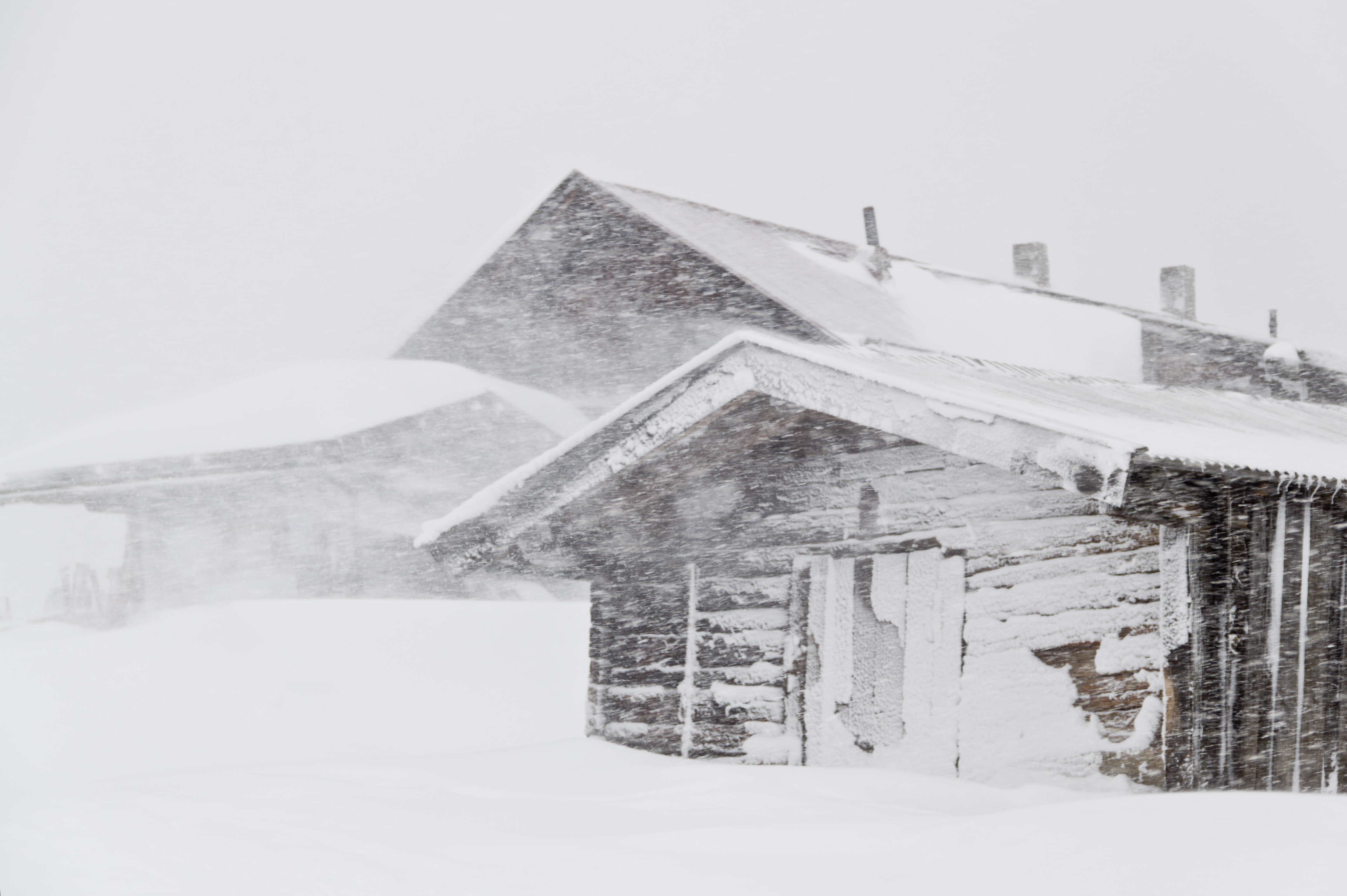 Snowstorm at 28 of December 2012 in Niederau / Tyrol.